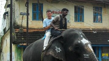 Andy Lauer is ridding on an Elephant while shooting in rural Tamil Nadu, India for Sahaya's Going Beyond, a film project to create AIDS awareness.